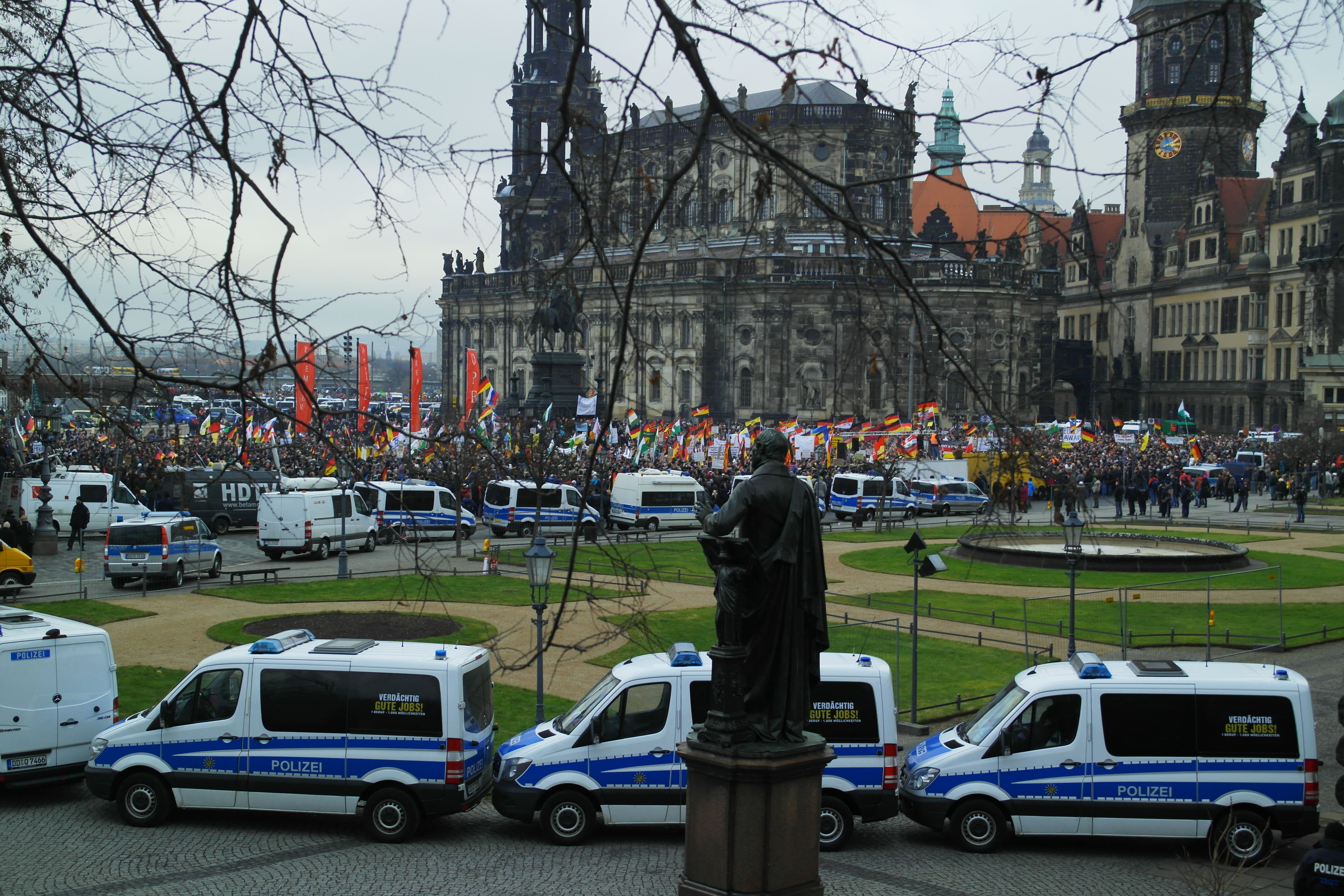 Around 25,000 - 15,000 demonstrators are here for many political themes in Germany. The first time, they demonstrate under the sunlight. The leftwing demonstrators become quiet after 10min and were hearing the speeches by PEGIDA with interest or turned on the music.